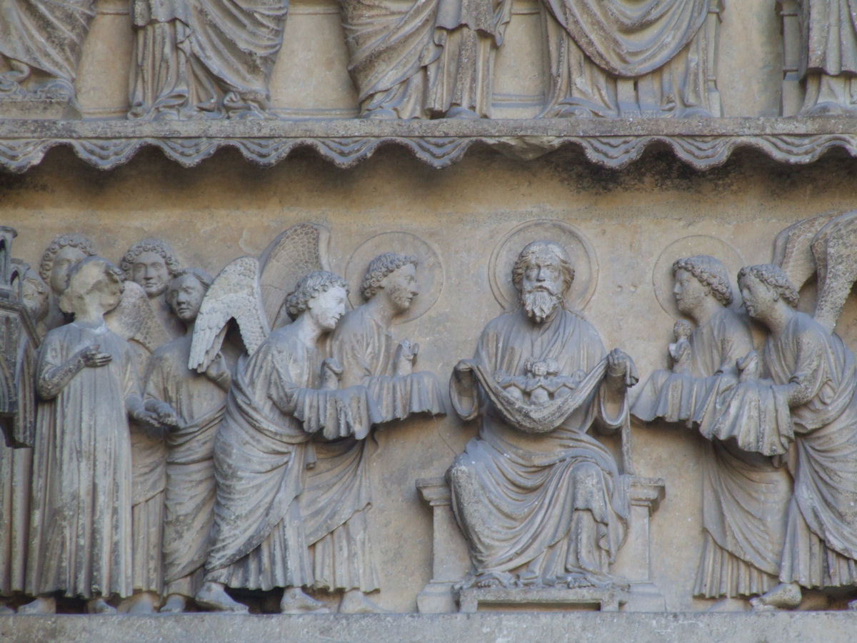 Cathedral Notre-Dame de Reims, France - The Last Judgment Tympanum